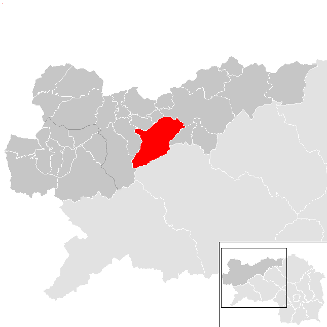 District Leoben